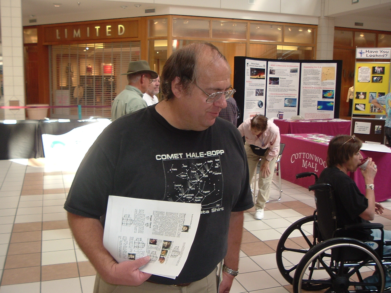 Astronomer Alan Hale, co-discoveror of Comet Hale-Bopp, at the Cosmic Carnival held at Cottonwood Mall in Albuquerque on Sept. 10th, 2005.